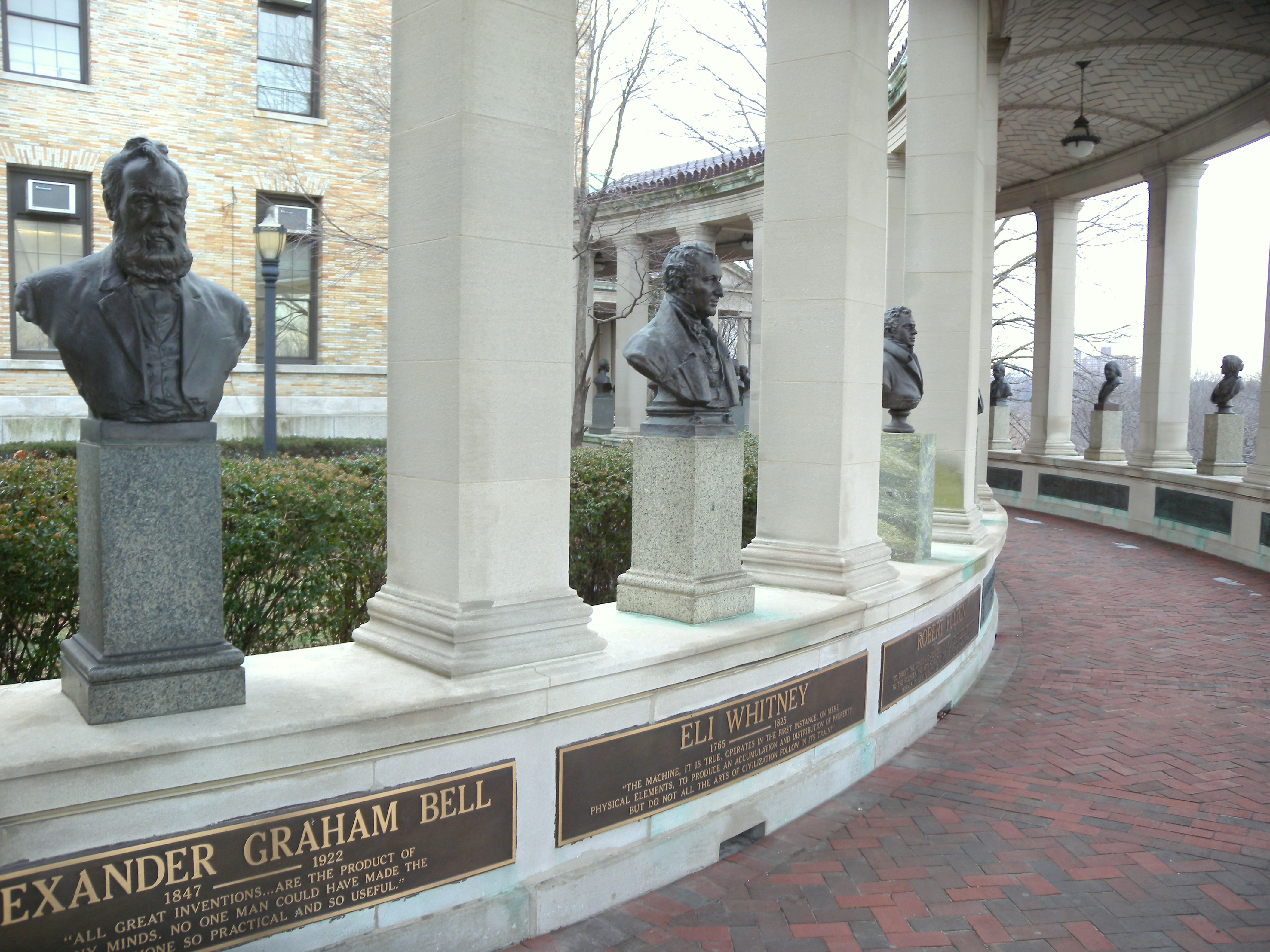 Looking west in Hall of Fame after some of the labels have been polished. From left, Alexander Graham Bell, Eli Whitney, and Robert Fulton.